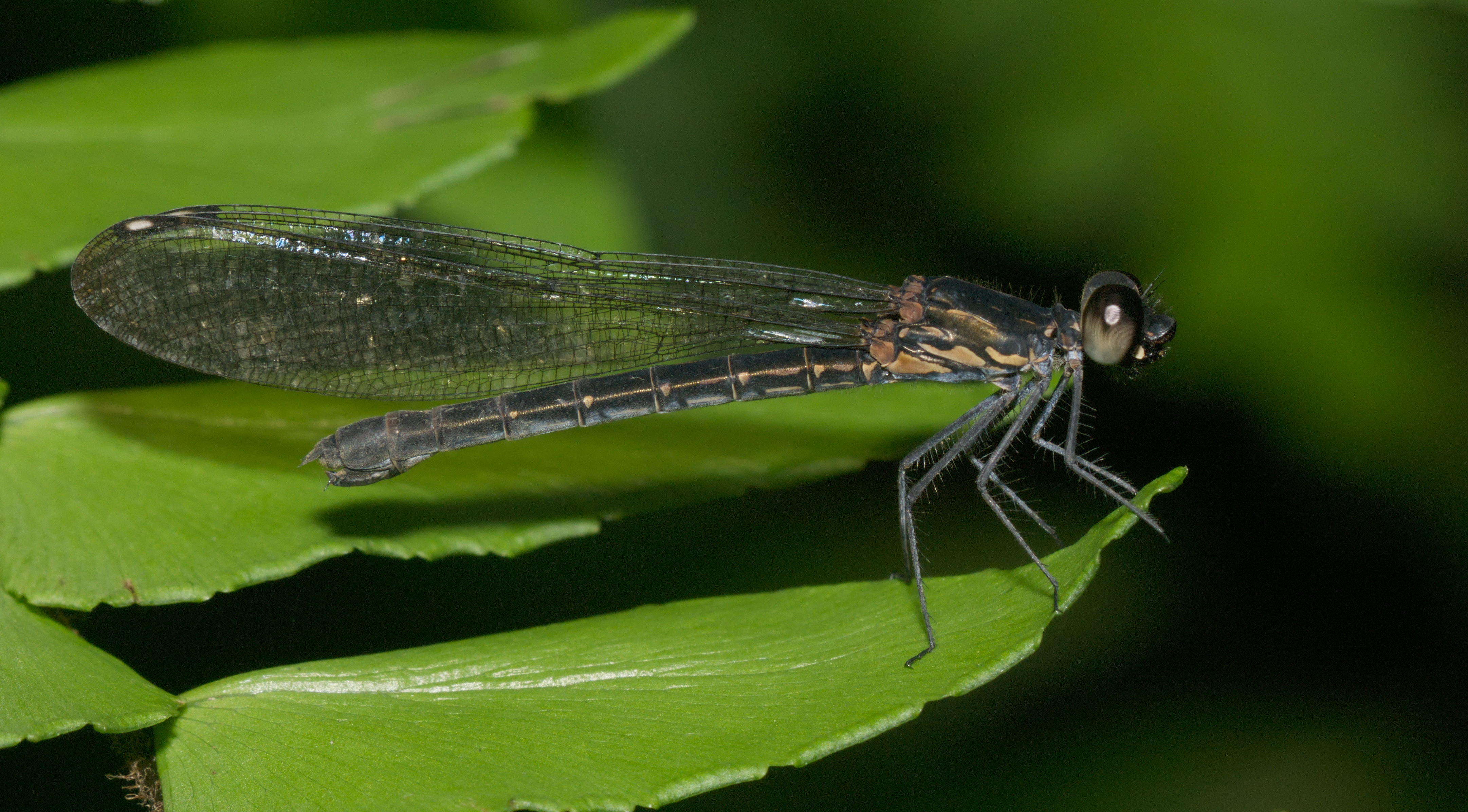 Heliocypha bisignata, Stream ruby, is a stream breeding species in the family Chlorocyphidae, endemic to India, distributed in South India. It is a small black and red damselfly with red coloured iridescent streaks on wings, which are longer than abdomen. Female is similar to male but markings more yellowish than reddish and yellow-tinted transparent wings.